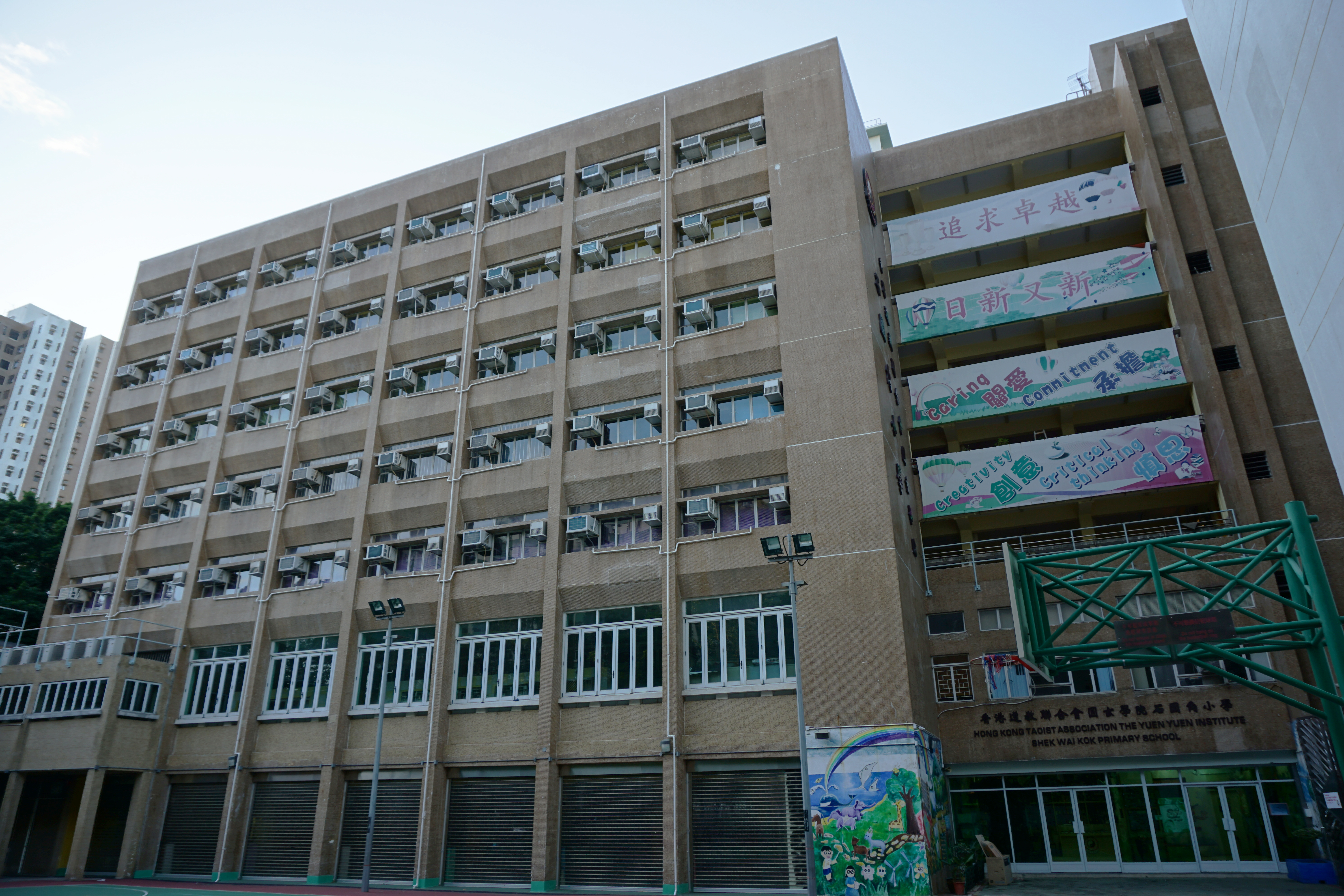 H.K.T.A.The Yuen Yuen Institute Shek Wai Kok Primary School in Tsuen Wan, Hong Kong.